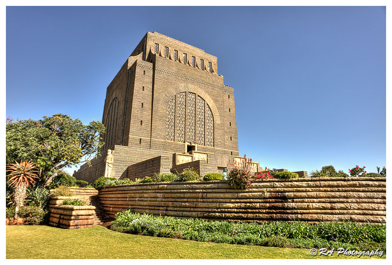 Monument built to honor the Voortrekkers of South Africa This media shows a South African Protected Site with SAHRA file reference 9/2/258/0097.